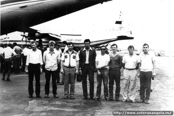 This is the only image of the crew of the Antonov AN-12 No.11747 cargo airplane shot down in Angola, Cuando Cubango province, on November 25, 1985